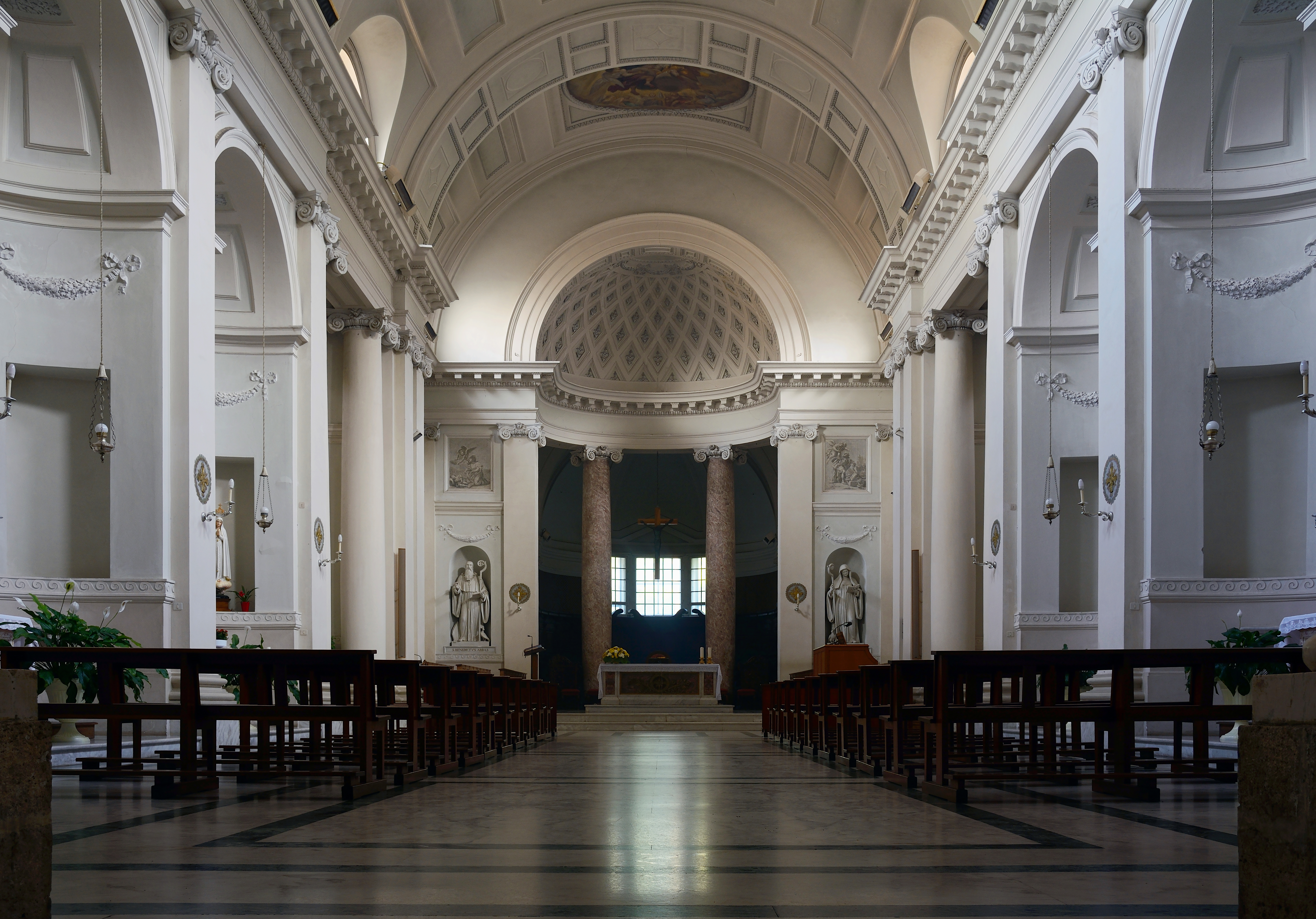 Church of Monastero di Santa Scolastica (Subiaco)